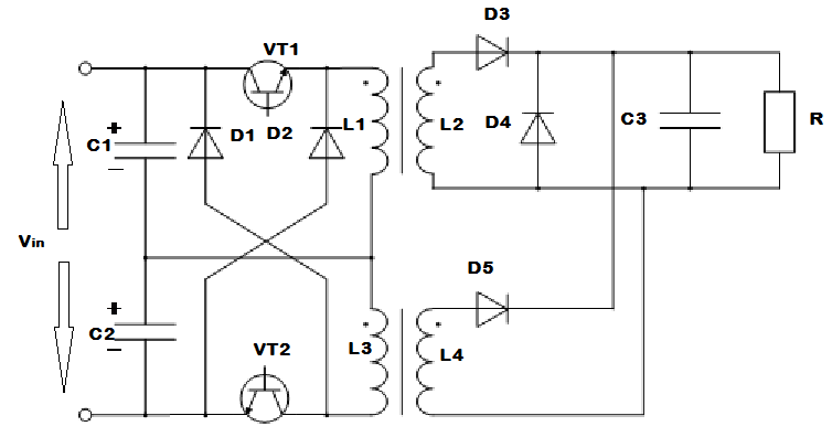 Спарений перетворювач